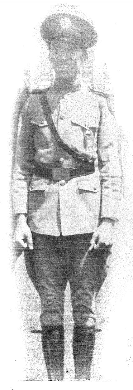 Herbert Holmes Military Photo